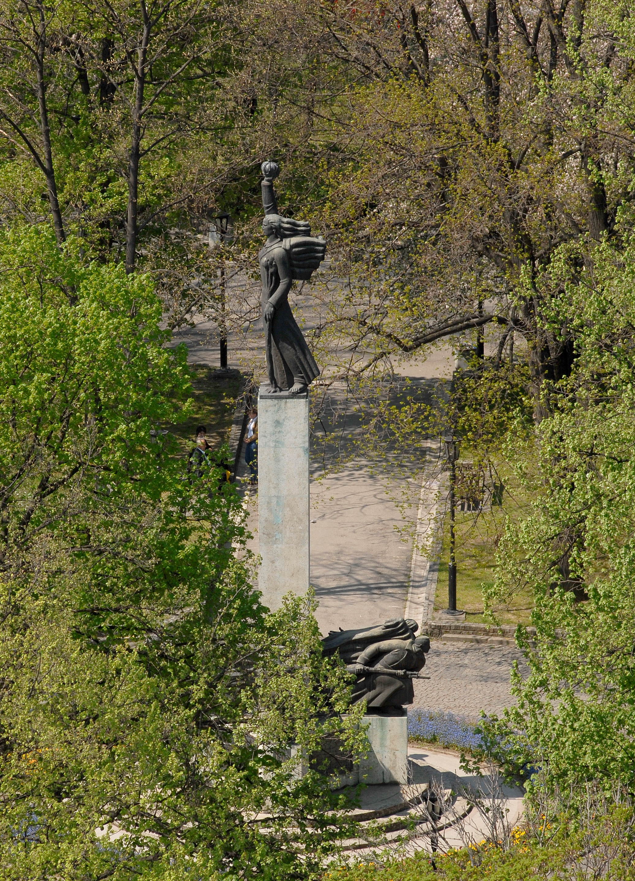 Image of monument in City of Kragujevac